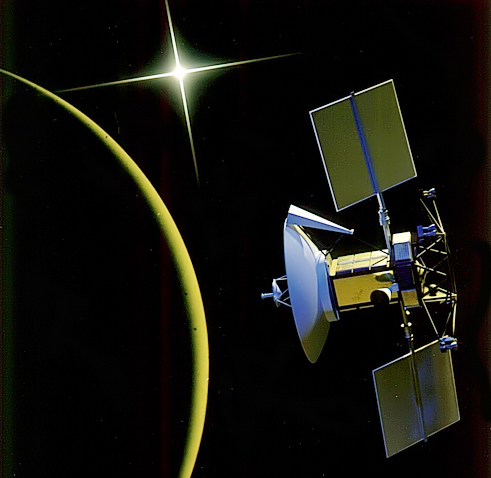 Artist depiction of Magellan at Venus.